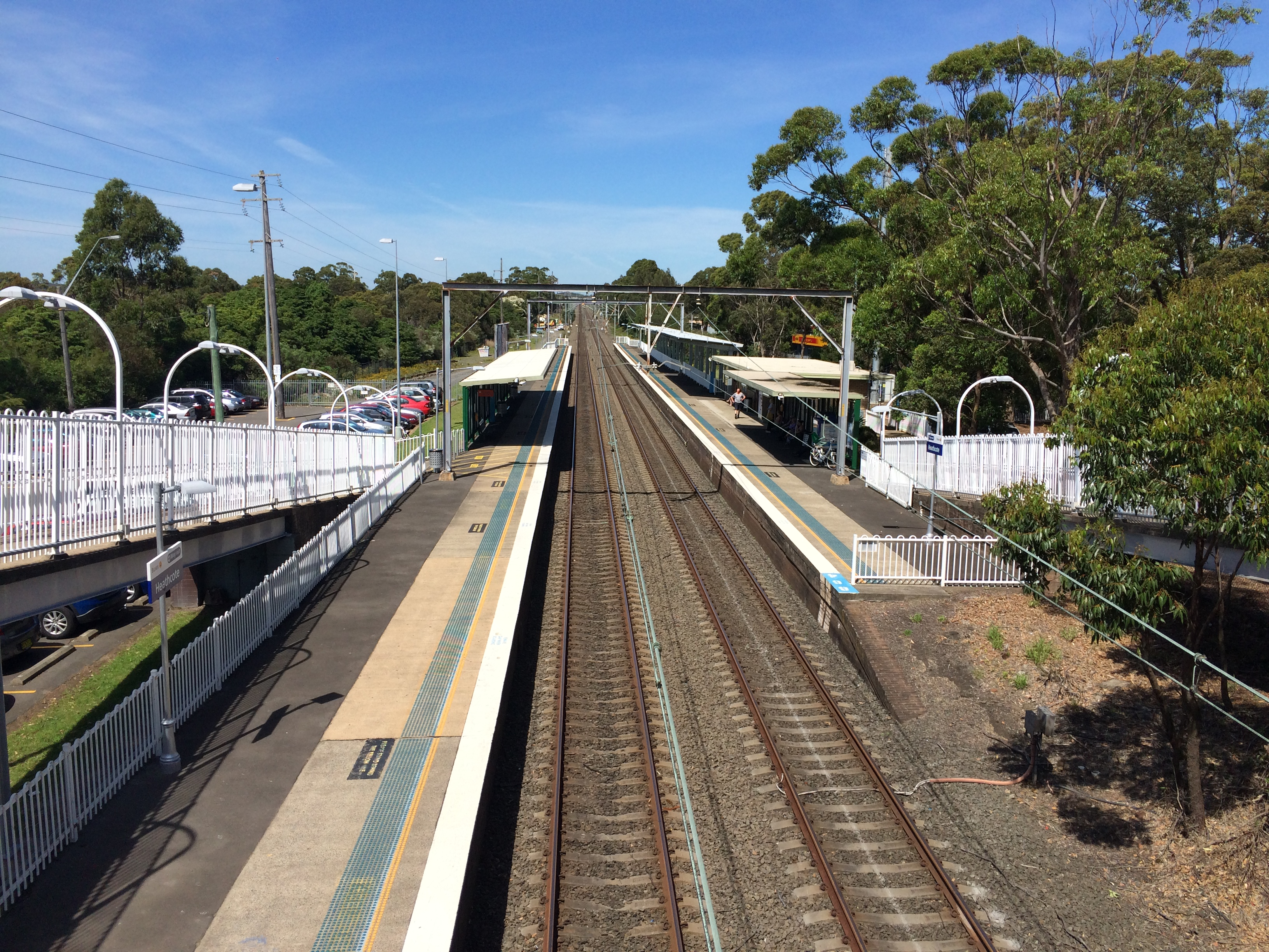 View southbound towards Waterfall and Nowra at the Heathcote railway station, taken shortly before major works on its redevelopment began in 2016. This view was taken on the station's former footbridge which existed as a link across the platforms and the rail tracks to the north of the station.